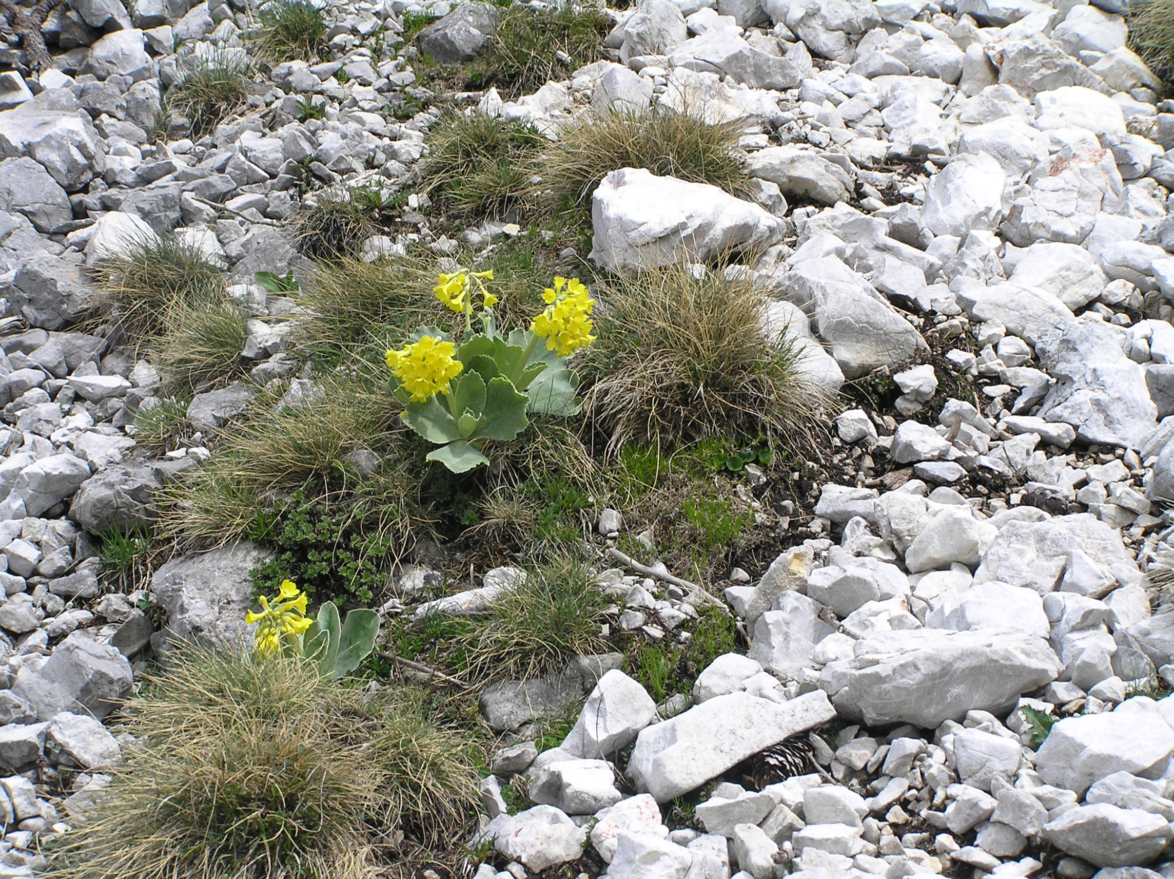 Primula auricula, Austria, Alps, the mountain Schneeberg near Wiener Neustadt